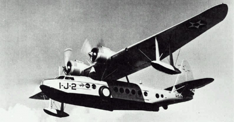 A U.S. Navy Sikorsky JRS-1 of utility squadron VJ-1 in flight in the late 1930s. VJ-1 operated eight aircraft from San Diego, California (USA).